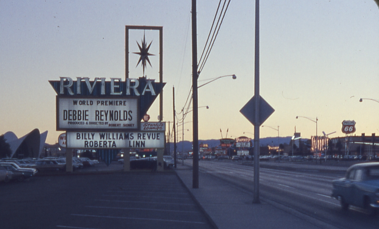 Las Vegas strip, with Riviera Hotel Marquee listing Debbie Reynolds, Billy Williams and Roberta Linn. Licensing This attribution link required with use of the photo outside of Wikipedia: EditorASC